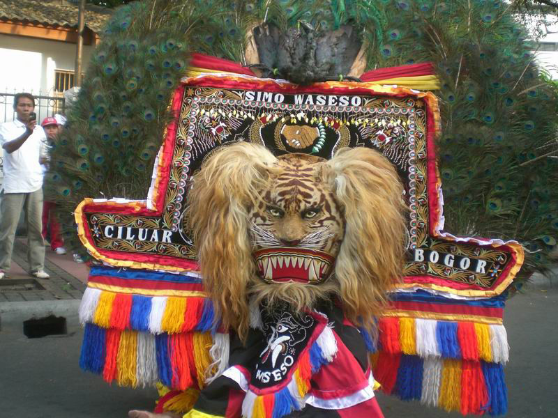 Reog Ponorogo